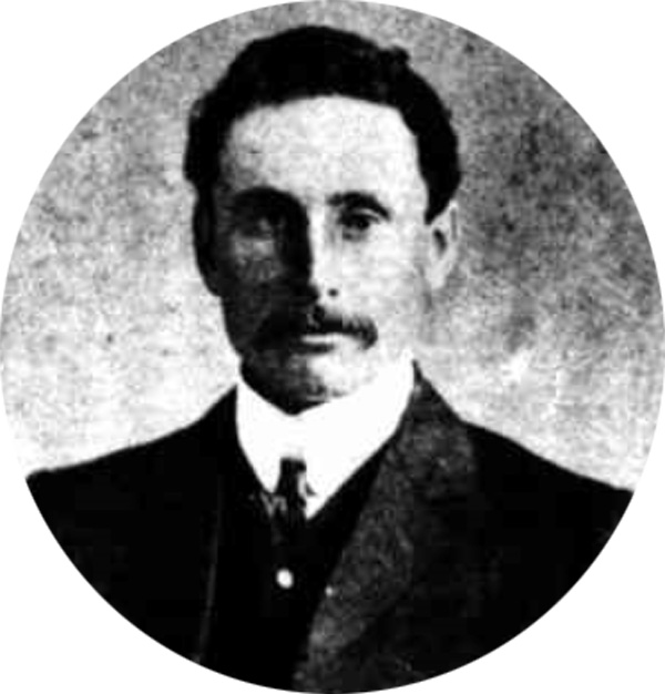 Timothy Joseph McCormack, owner of Tuggeranong Homestead, 1908